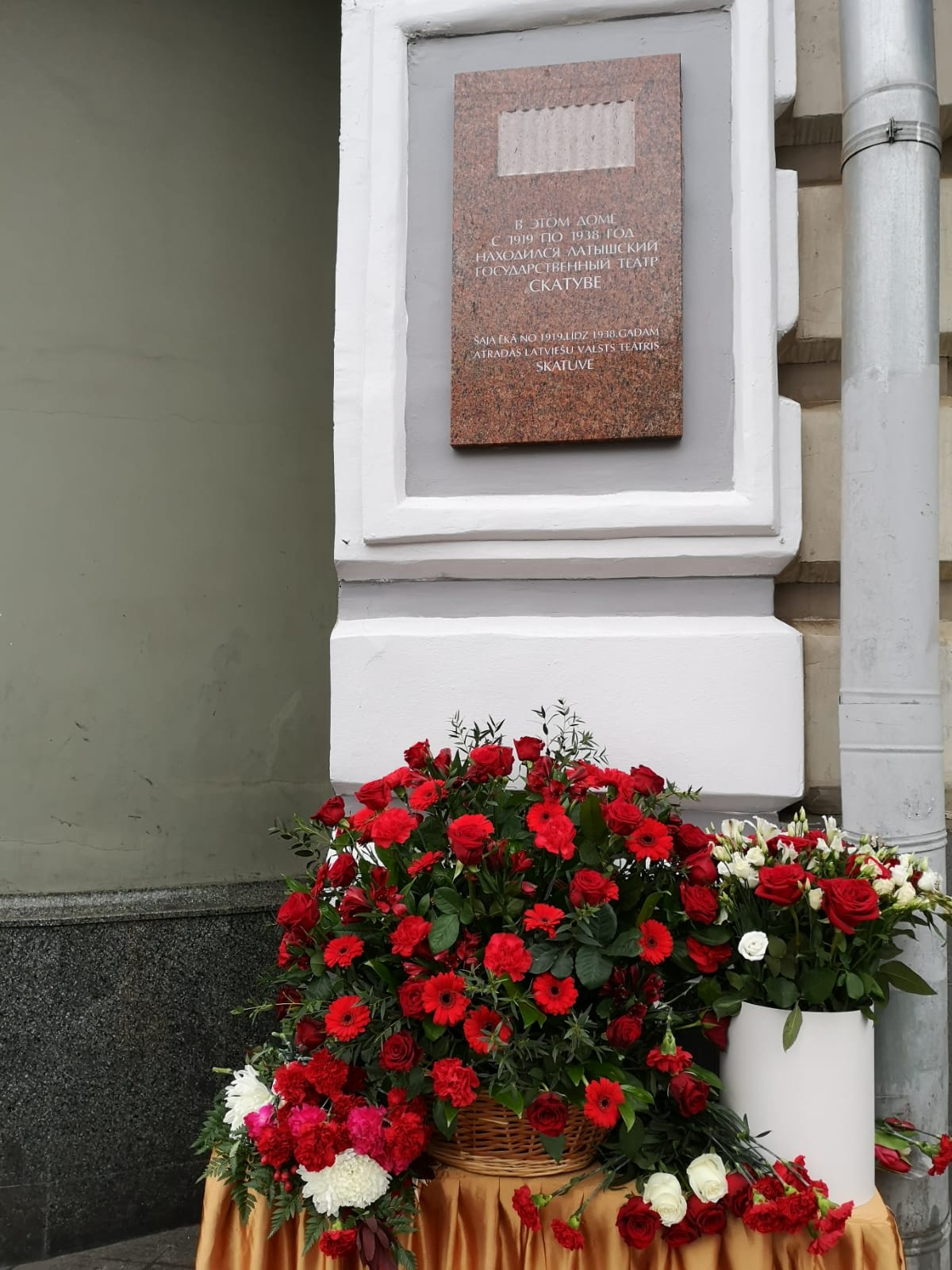 A memorial plaque to the Latvian State Theater "Skatuve" has been developed and installed by the Embassy of the Republic of Latvia to the Russian Federation.